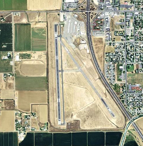 USGS digital orthophoto of Willows-Glenn County Airport in California